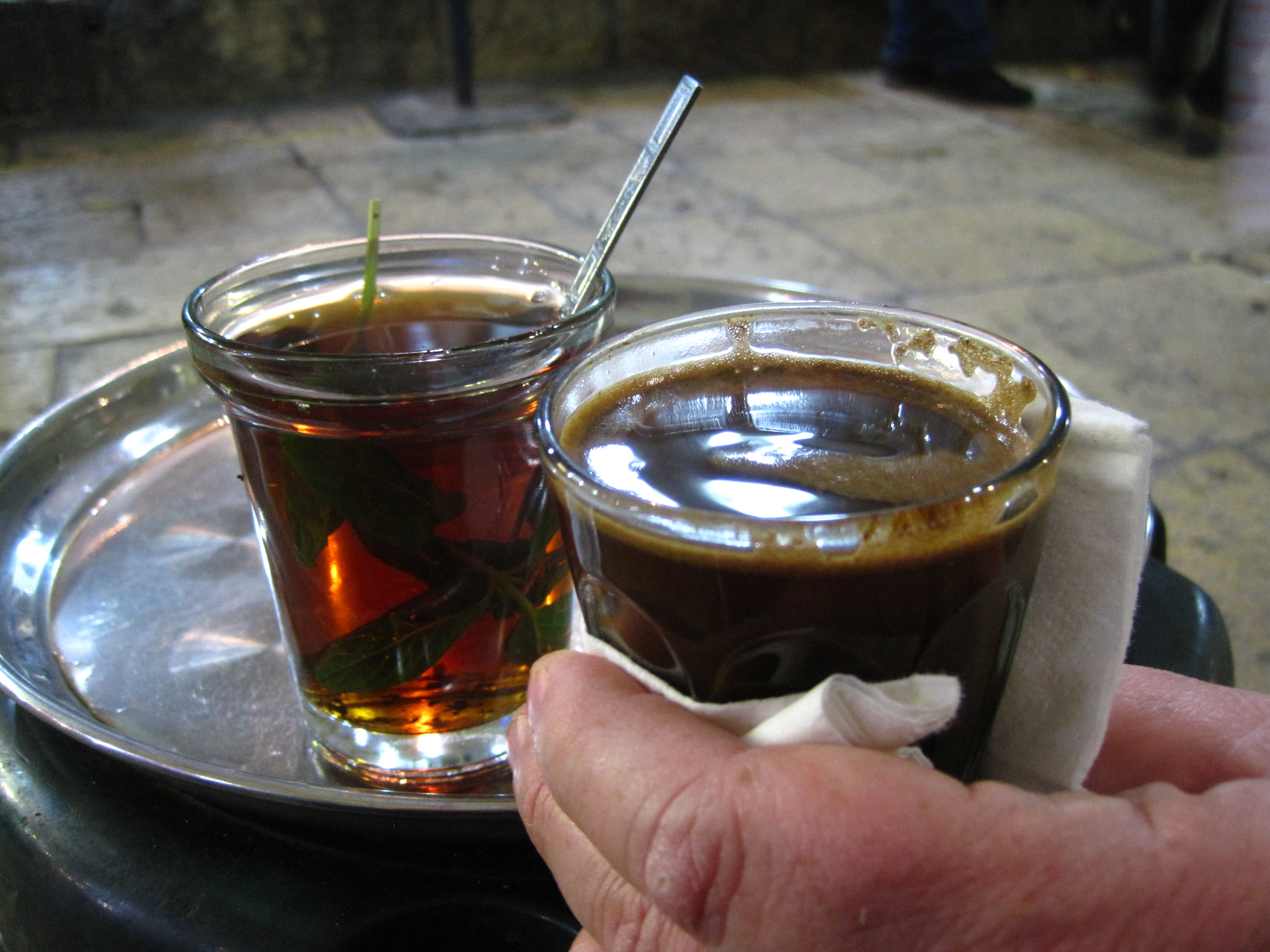 Tea & Coffee, Cotton Gate Jerusalem